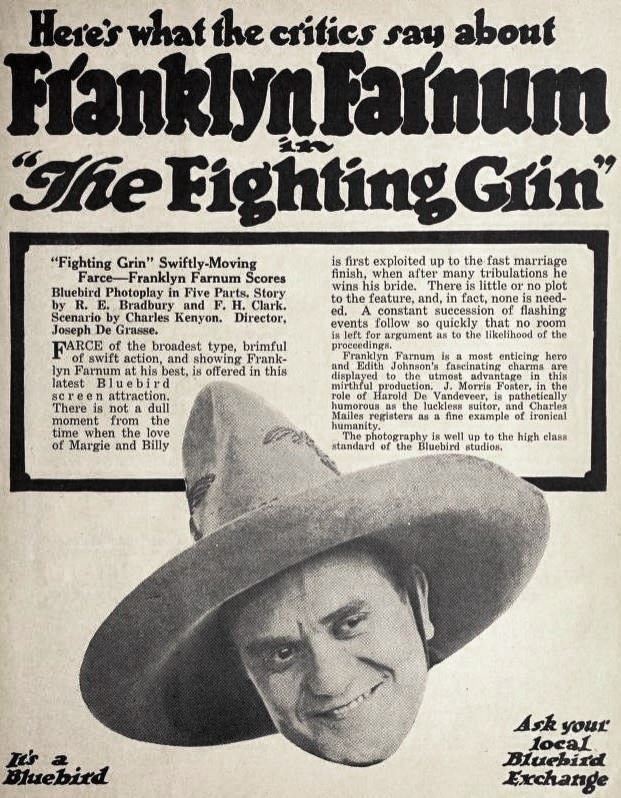 Advertising for the American comedy film The Fighting Grin (1918) with Franklyn Farnum, on page 21 of the February 2, 1918 The Moving Picture Weekly.